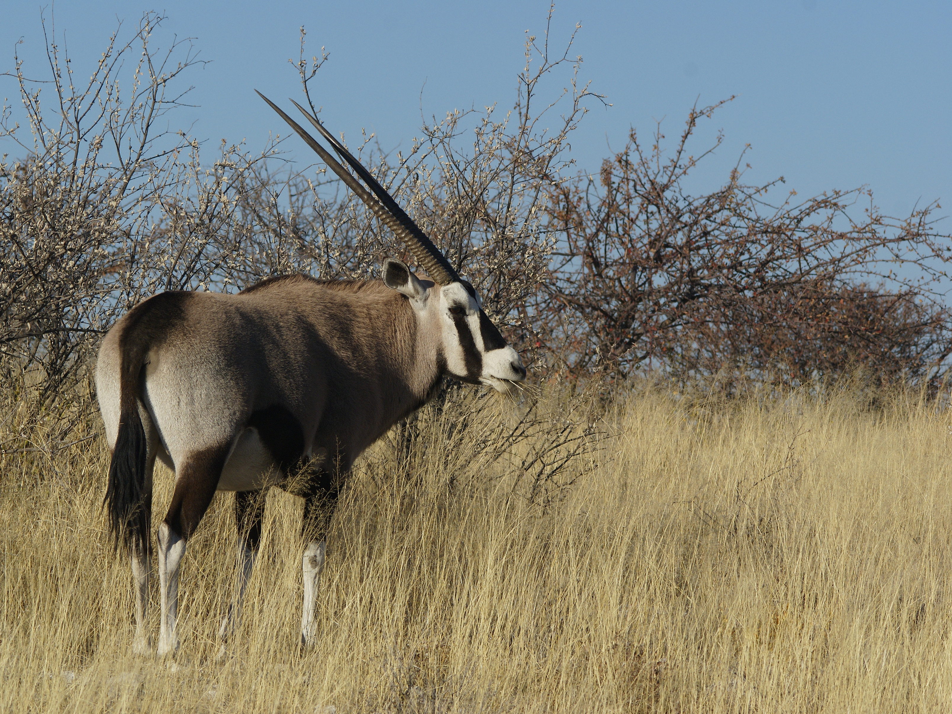 A Gemsbok or Southern oryx near Wolfsnes, western Etosha National Park, Namibia